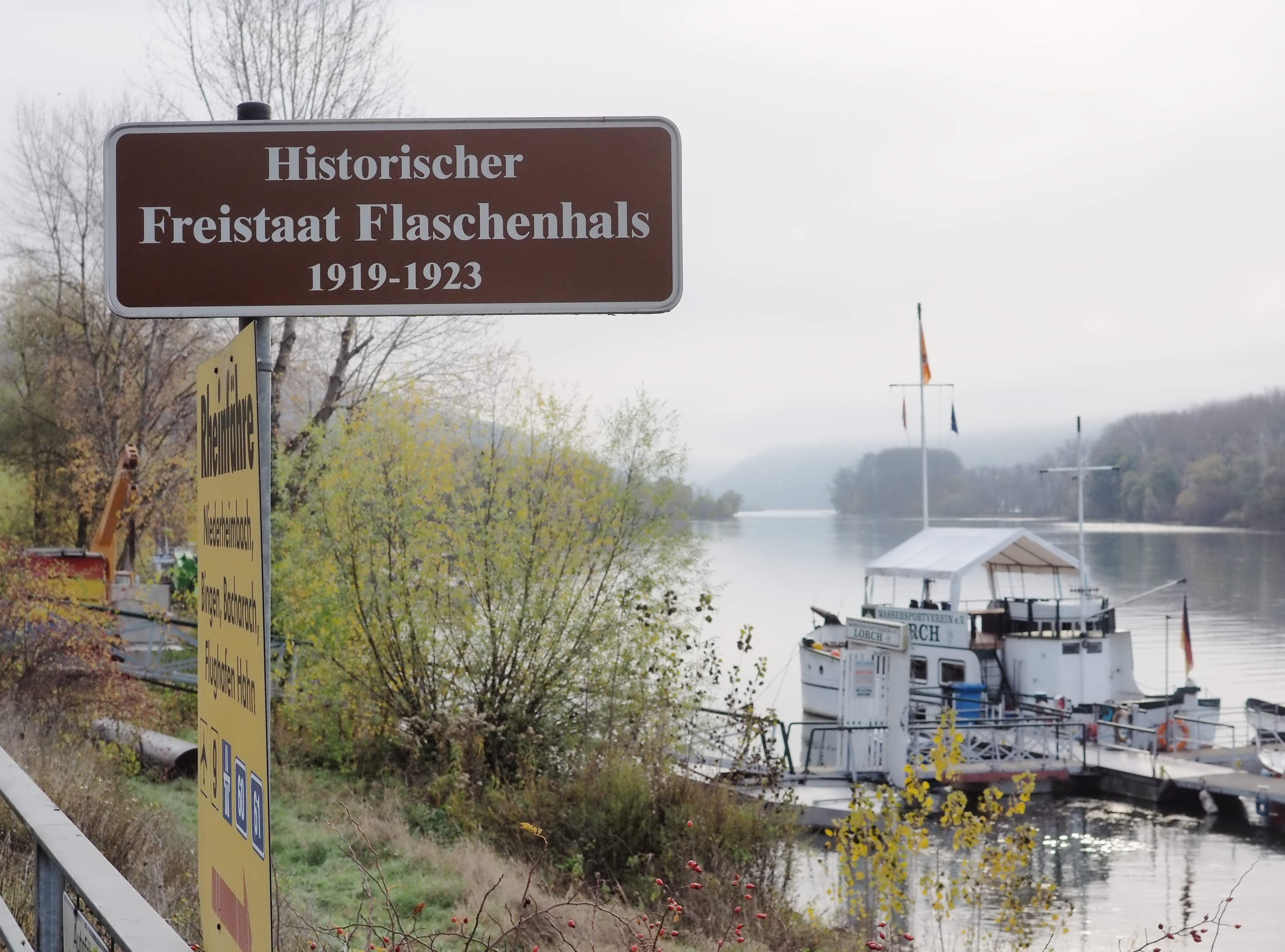 Entry sign of „Free State Bottleneck“ at the Niederheimbach–Lorch Rhine ferry